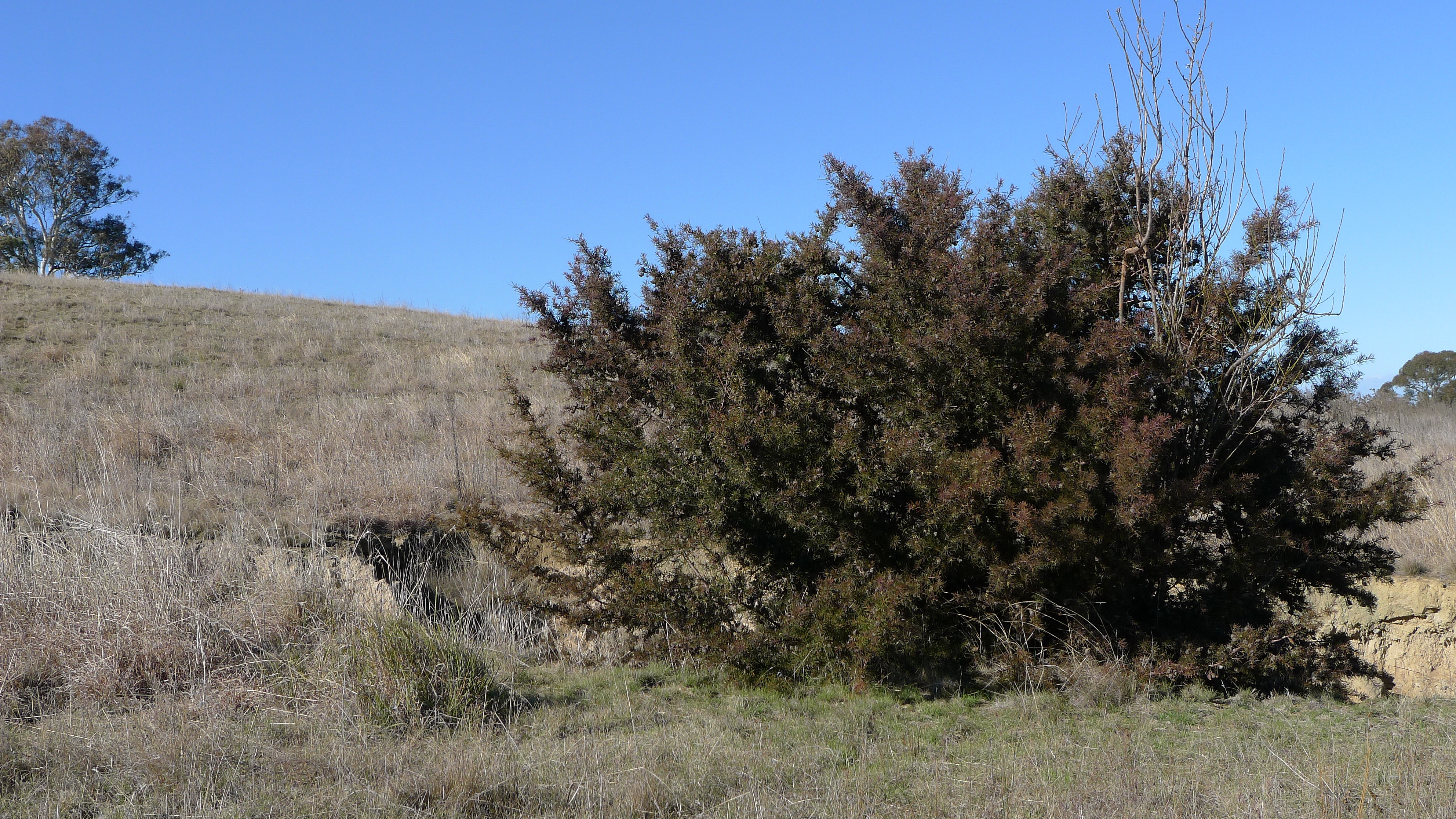 Bushy Needlewood, Hakea decurrens. McCleods Nature Reserve, Gundaroo NSW Australia, August 2013.